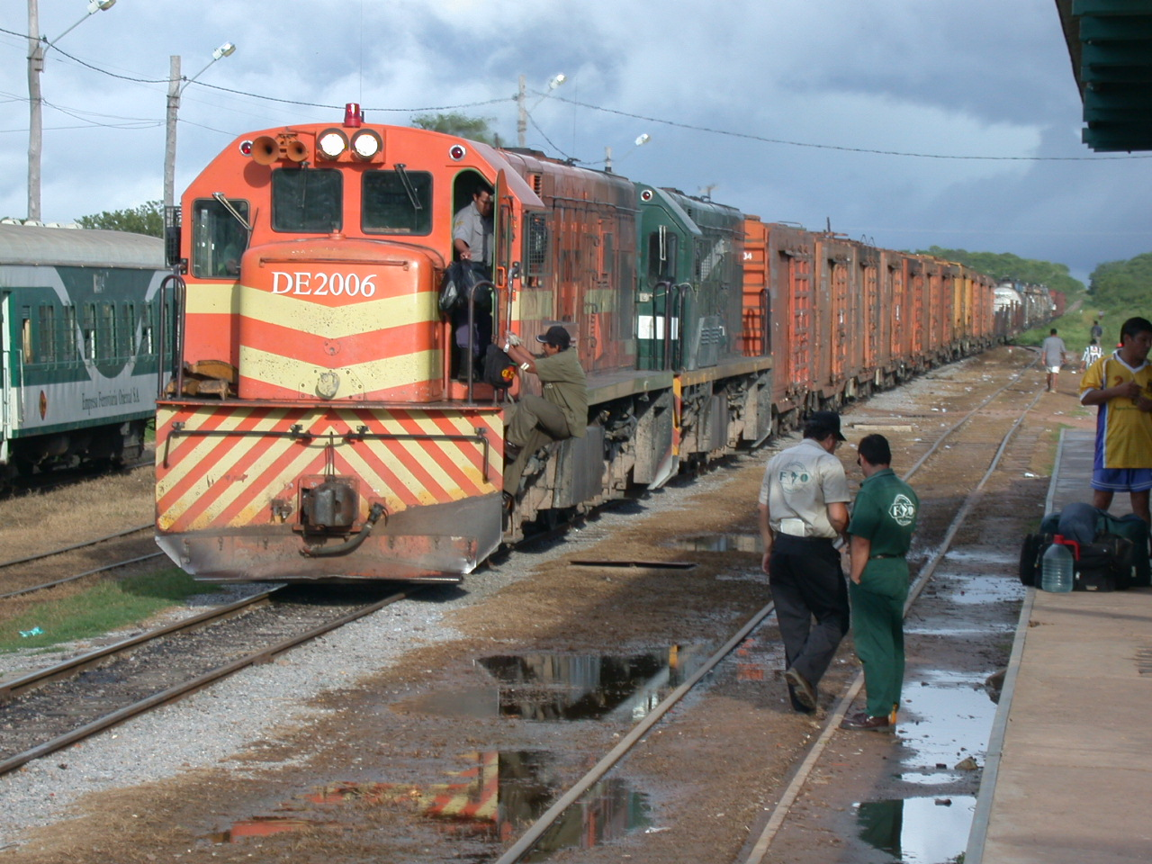 Crew change at division point.